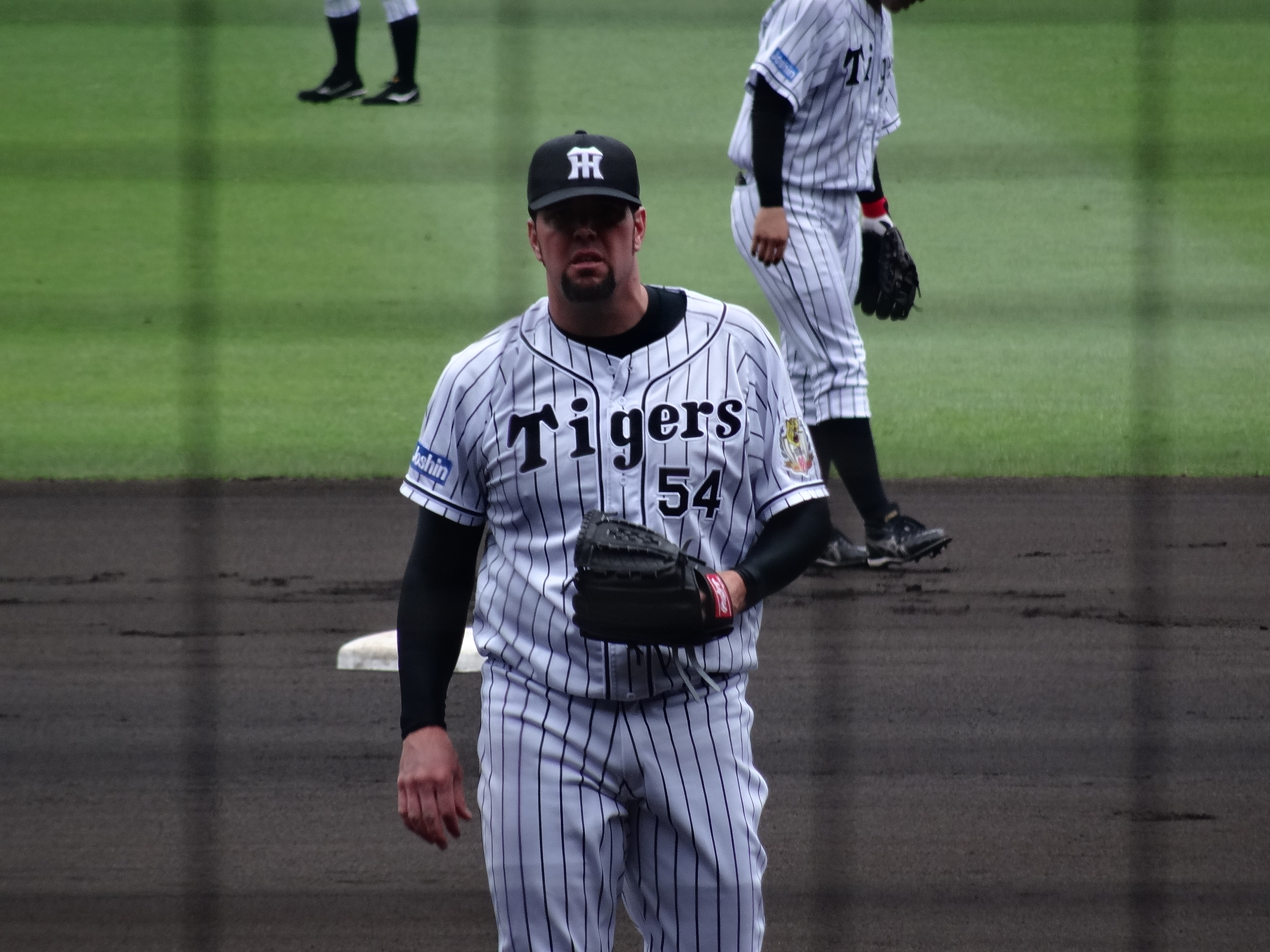 Randy Messenger, pitcher of the Hanshin Tigers, at Hanshin Koshien Stadium.